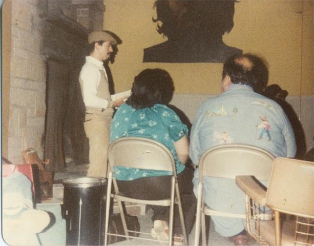 Giovanni Grecco, Colegio staff member, and his wife listen to the poetry reading. Image depicts a book reading and signing by Chicano poet Alurista. Signing and reading took place at Colegio Cesar Chavez in Mount Angel, Oregon, (United States) circa 1982. (Note painting of Che Guevara on the wall.) Colegio Cesar Chavez was the nation's first fully accredited Hispanic university. Alurista poetry reading at Colegio Cesar Chavez, circa 1981 Alurista/Colegio Cesar Chavez, Photo 1 Alurista/Colegio Cesar Chavez, Photo 2 Alurista/Colegio Cesar Chavez, Photo 3 Alurista/Colegio Cesar Chavez, Photo 4